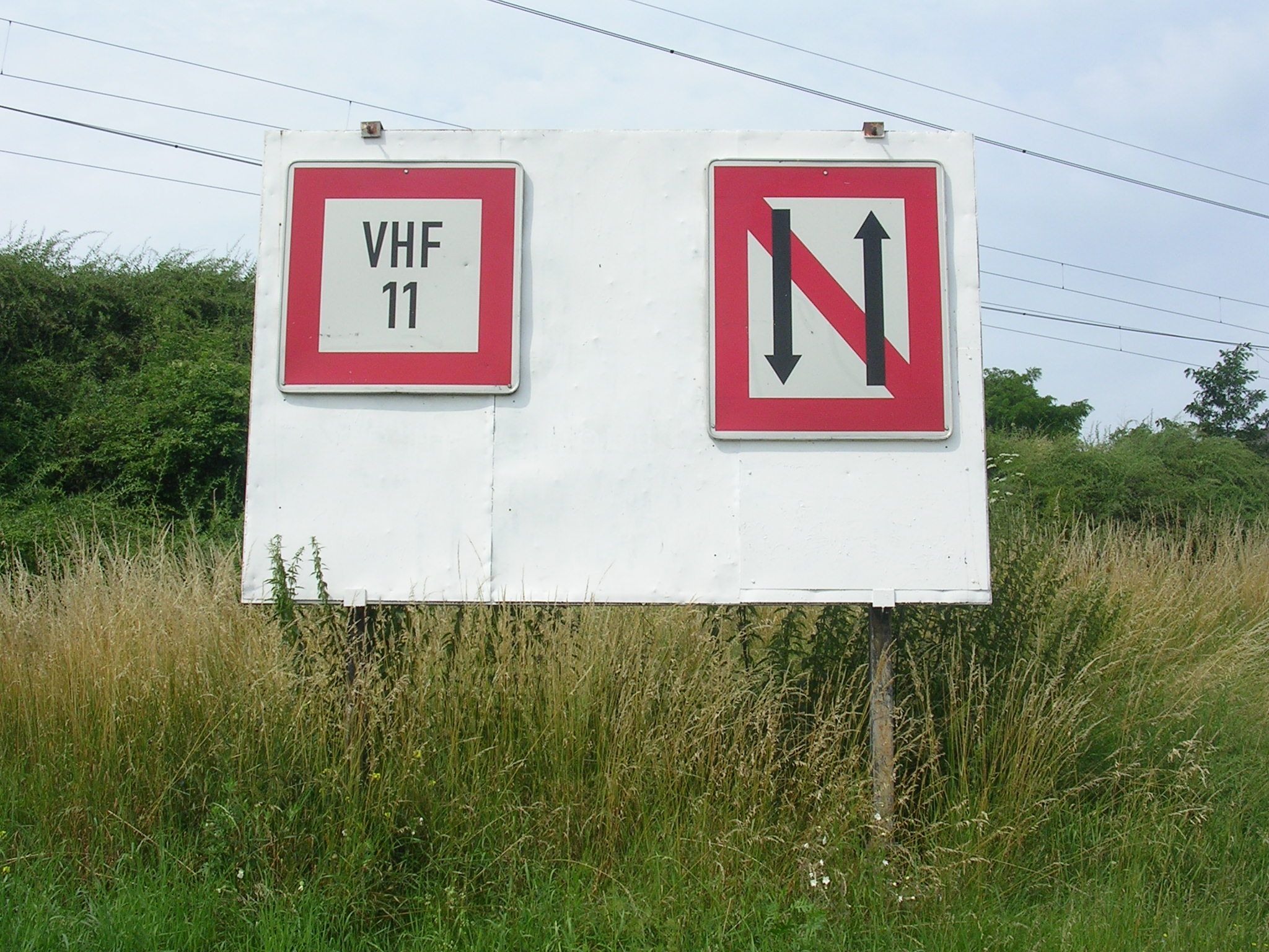 Vraňany-Mlčechvosty, Mělník District, Central Bohemian Region, the Czech Republic. Water transport signs at Vltava River.